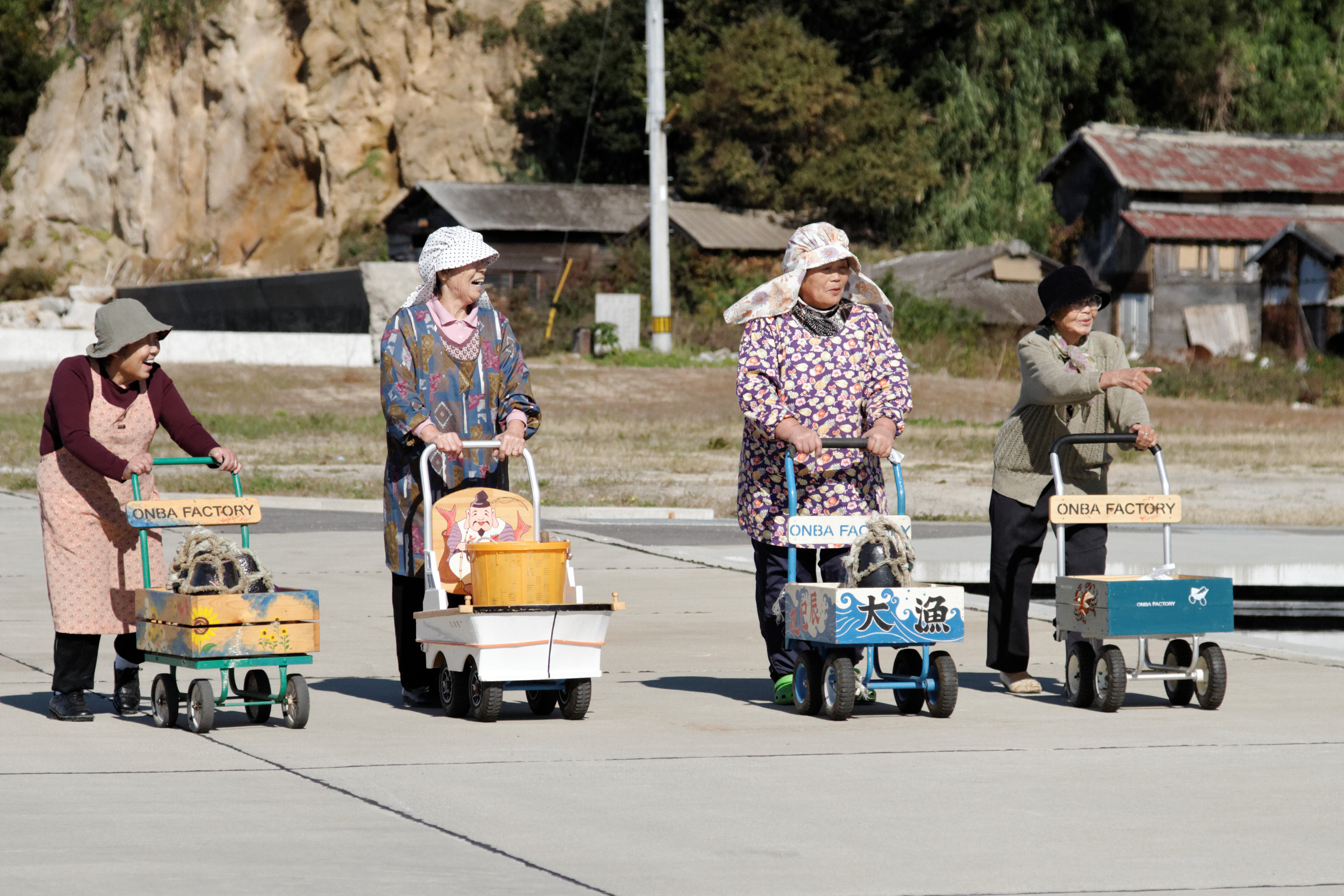 Ogijima - 男木島